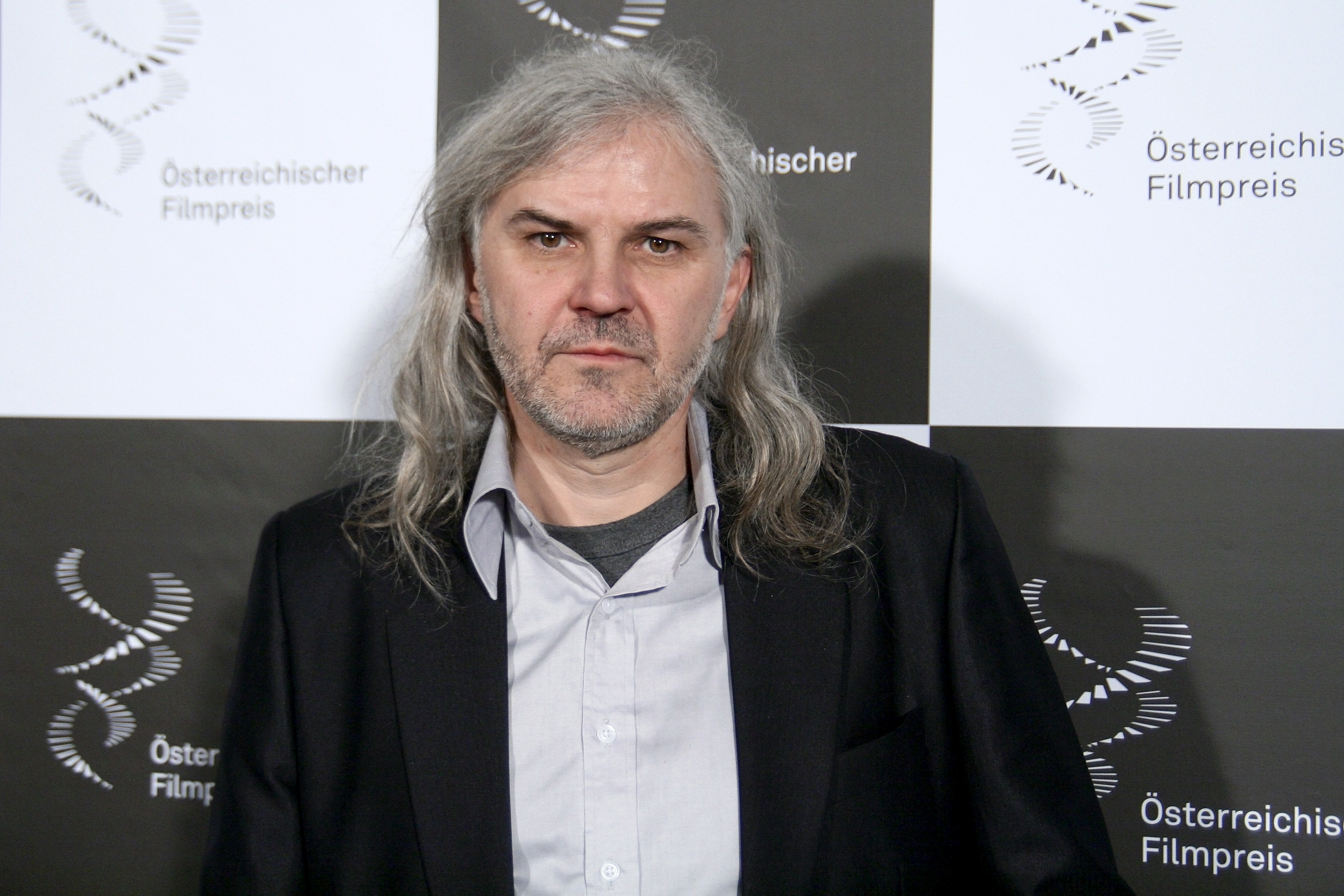 Michael Glawogger, Austrian Film Awards 2012 (Vienna).